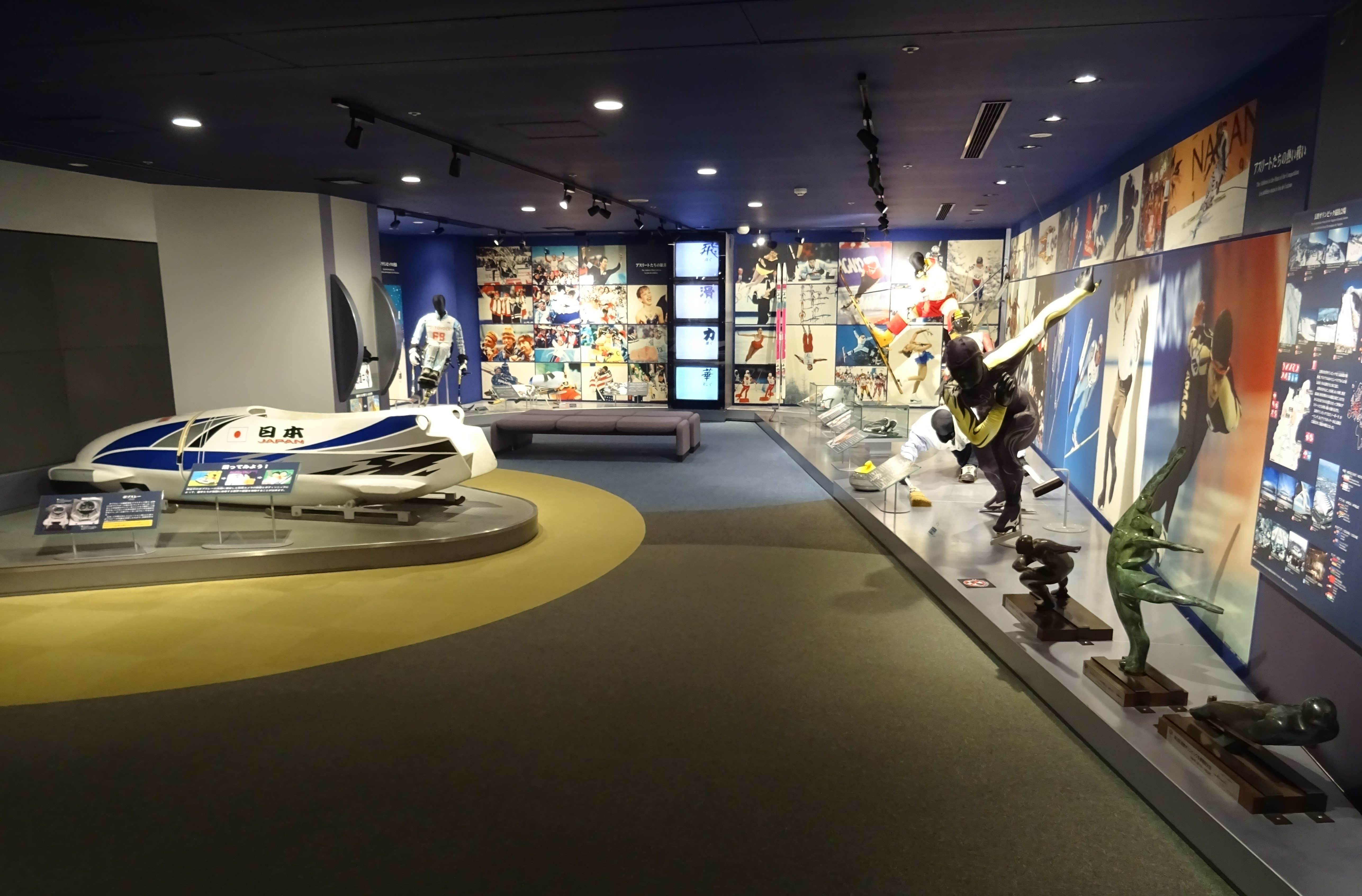 The Nagano Olympic Museum in the M-Wave.